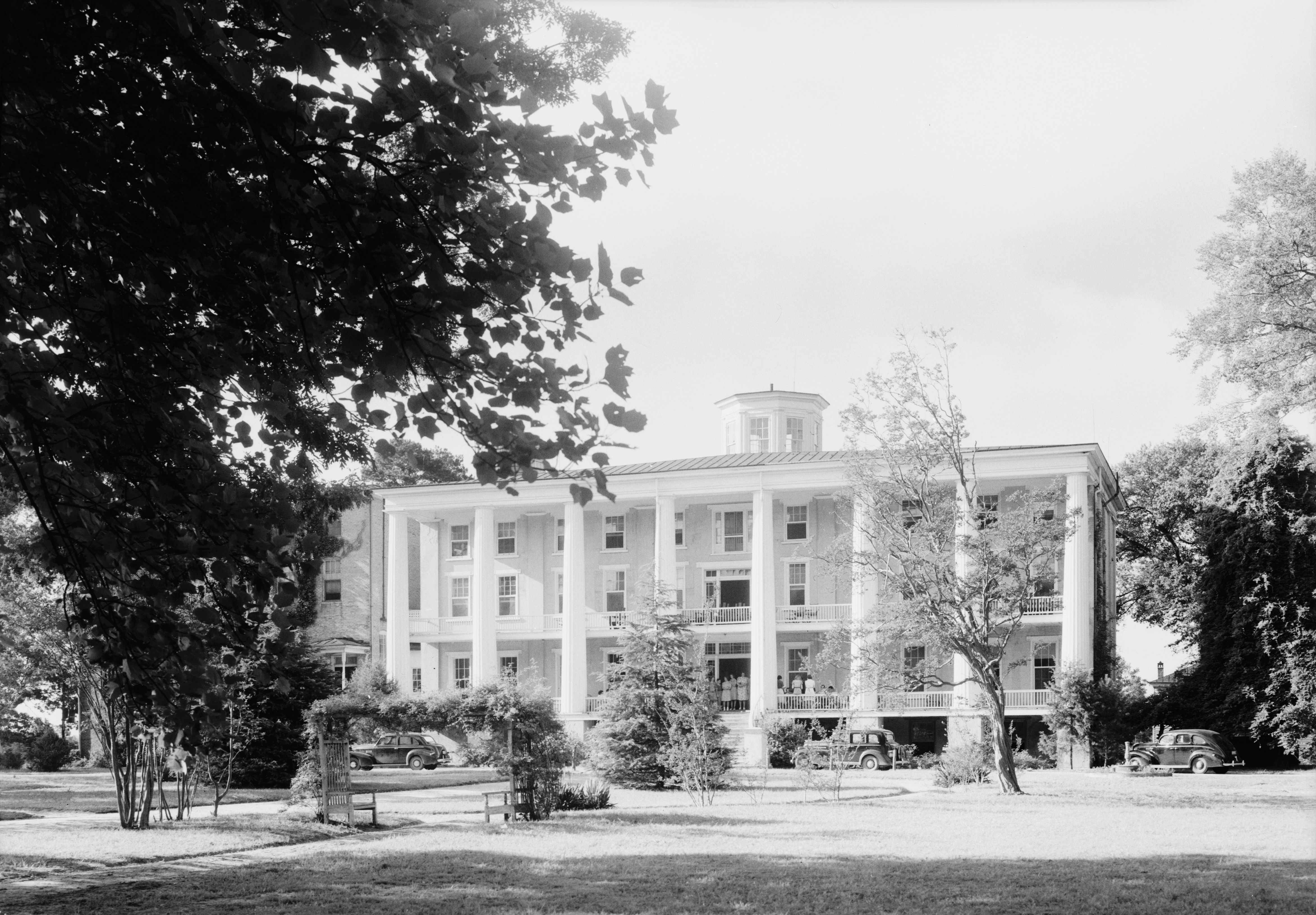 The McDowell Building, located on the campus on Chowan University in Murfreesboro, North Carolina, USA.